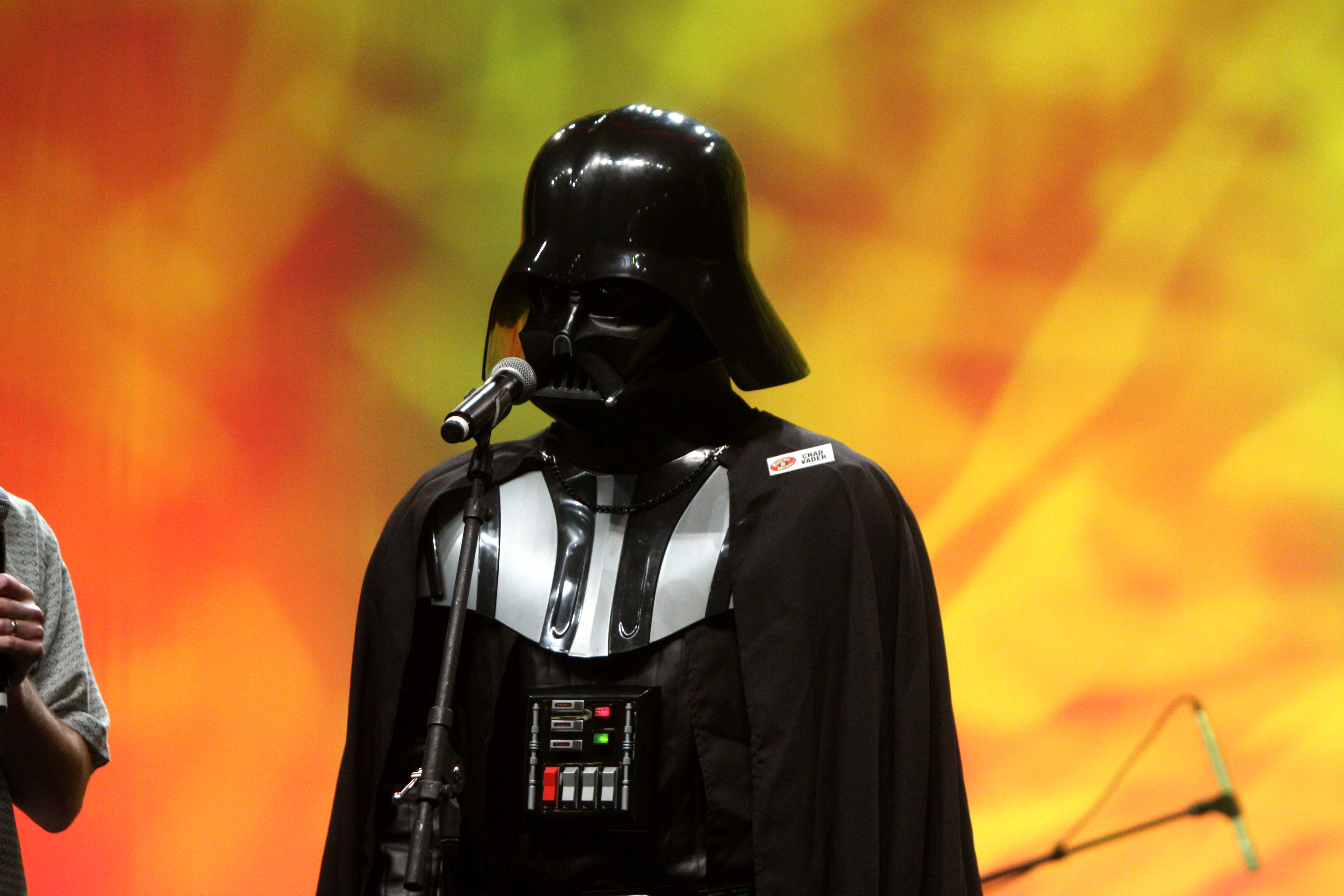 Chad Vadar speaking at VidCon 2012 at the Anaheim Convention Center in Anaheim, California.